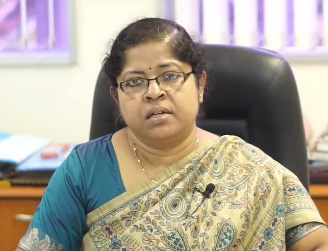 Shanta Dutta, Indian microbiologist